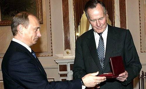 Meeting with former U.S. President George Bush Sr. V.Putin awarded George Bush Sr. the jubilee medal “60 years of Victory”.